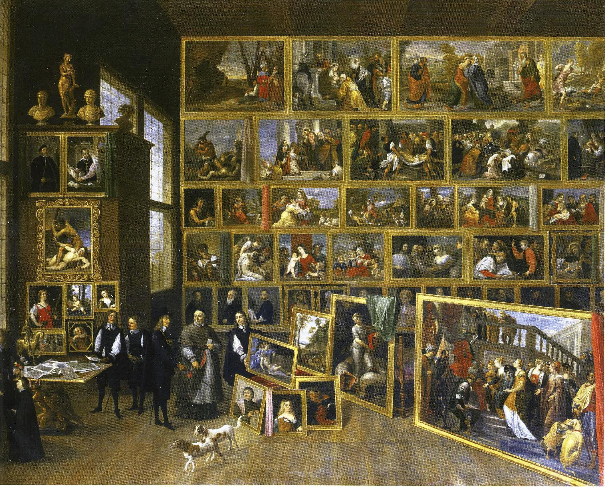 This image is available from the Netherlands Institute for Art Historyunder digital ID 232902. This tag does not indicate the copyright status of the attached work. A normal copyright tag is still required. See Commons:Licensing.